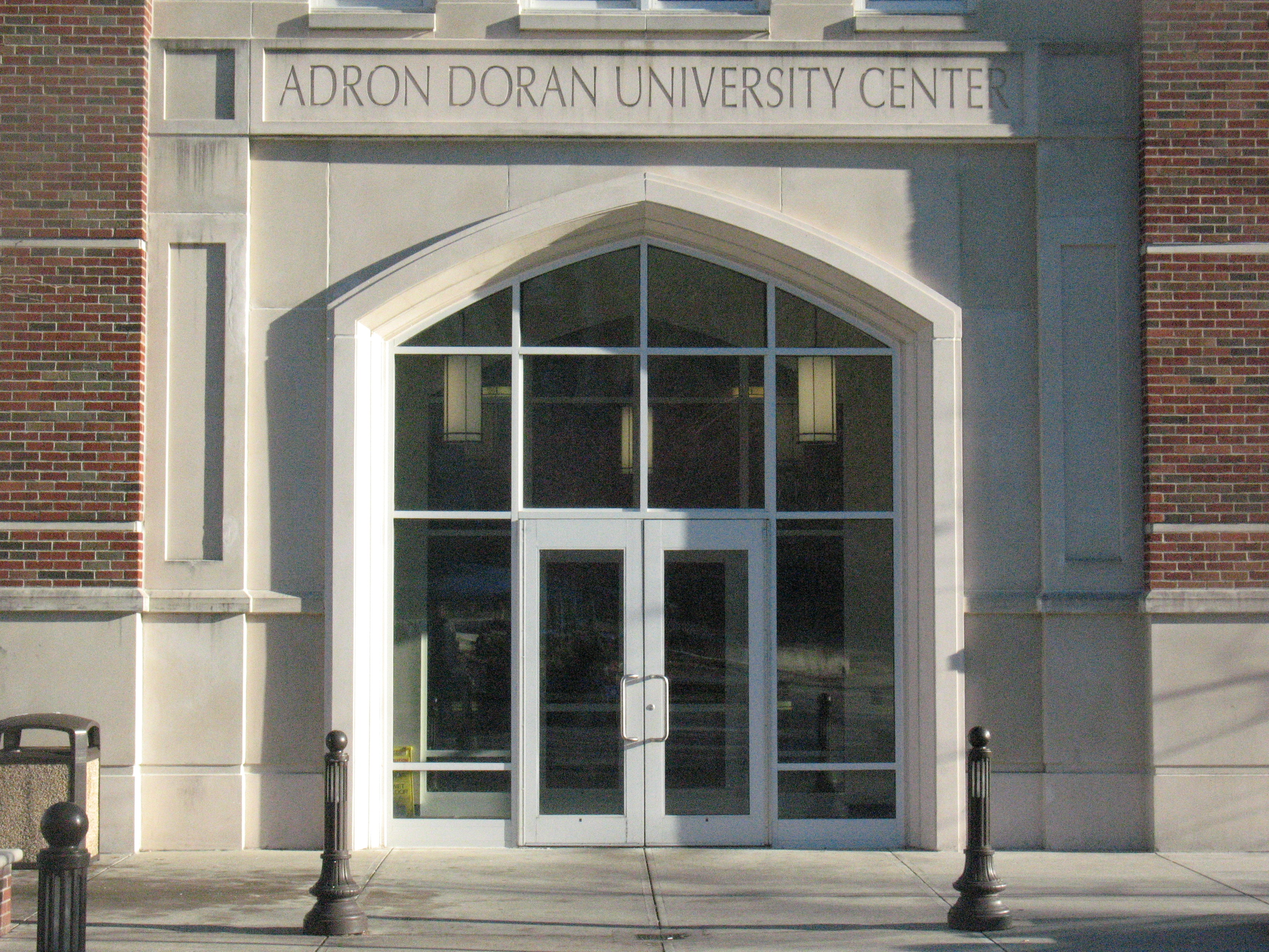 Front entrance of Adron Doran University Center, located at Morehead State University in Morehead, Kentucky, USA.